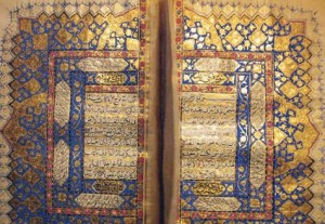 The manuscript of the Quran - parts of which are believed to have been inscribed by Aurangzeb.It is of size 14.5cm x 24cm ,having lavish golden insets and consisting of sheets of paper handcrafted from rice and natural materials.The script is written in ink made from valuable minerals, and it is inlaid with ruby, lapis lazuli ,gold , silver and garnet.